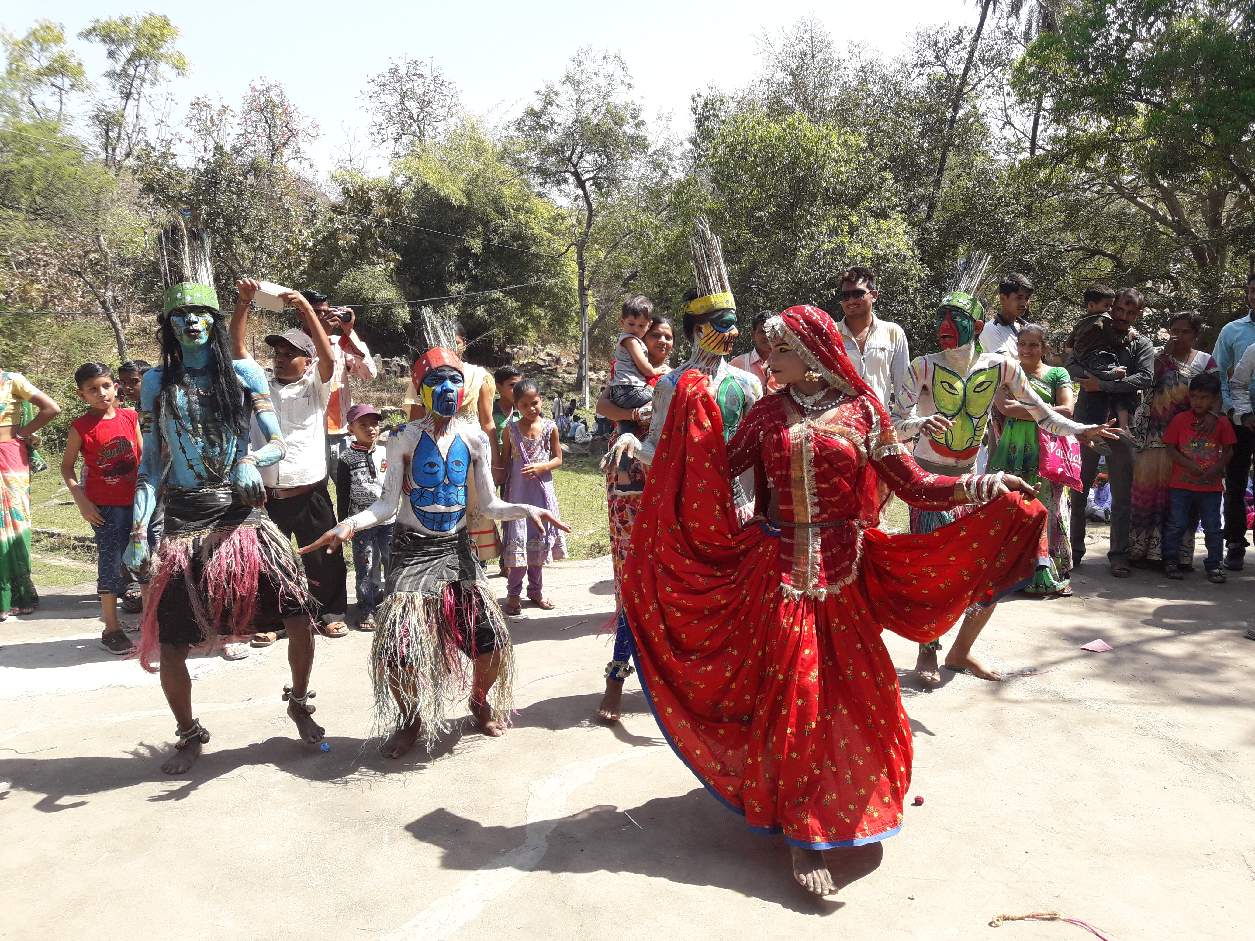 Folk dance by Saharia tribe people of Rajasthan in Kaleshwari Art Fair - 2017 held Kaleshwari Temple, near Khanpur of Mahisagar district of Gujarat, India.